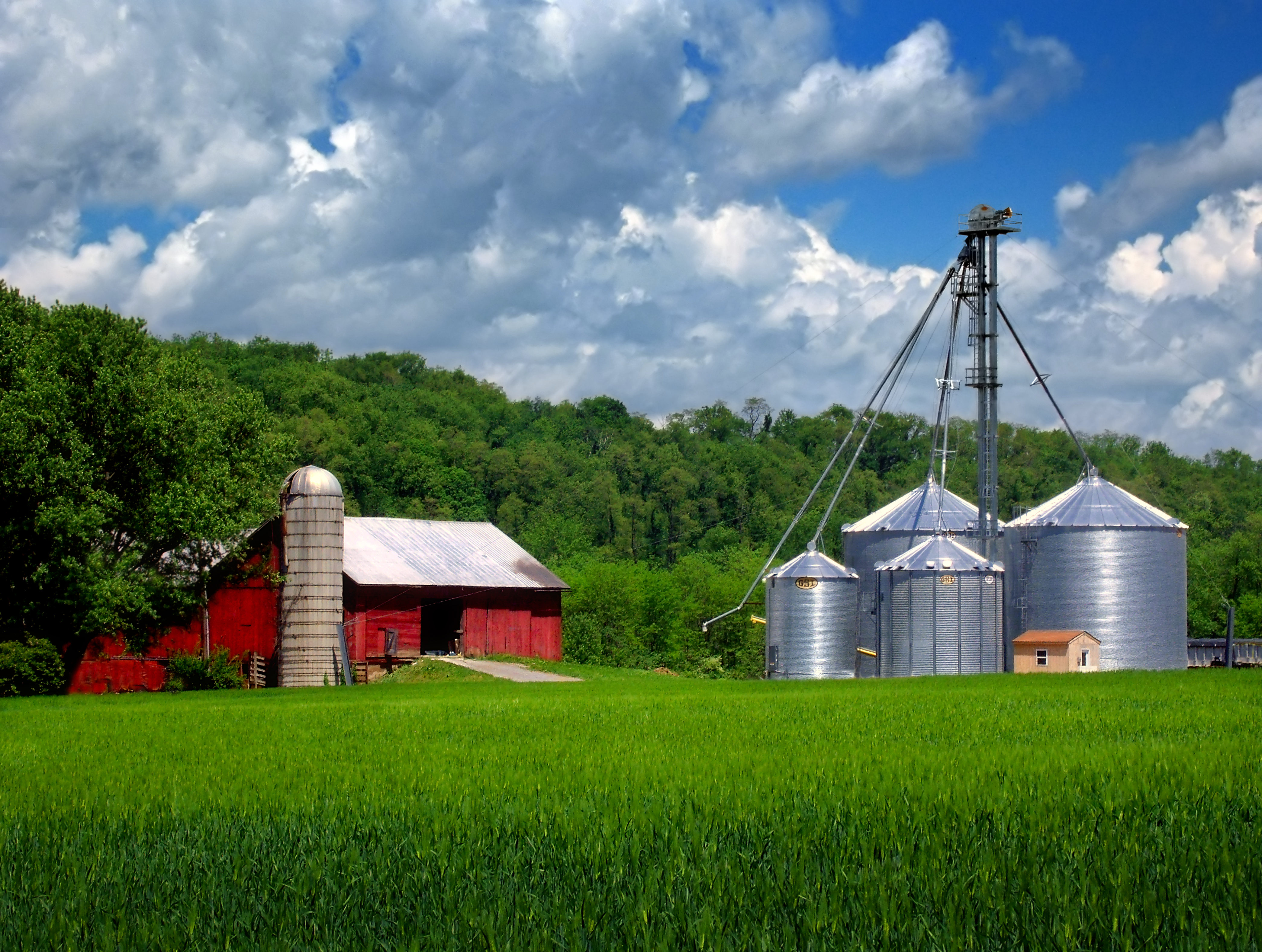 Farmstead, Turbot Township, Northumberland County.